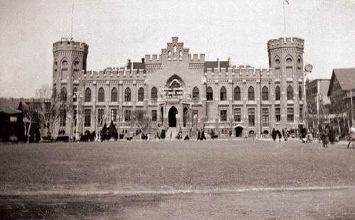 1900s Gordon Hall